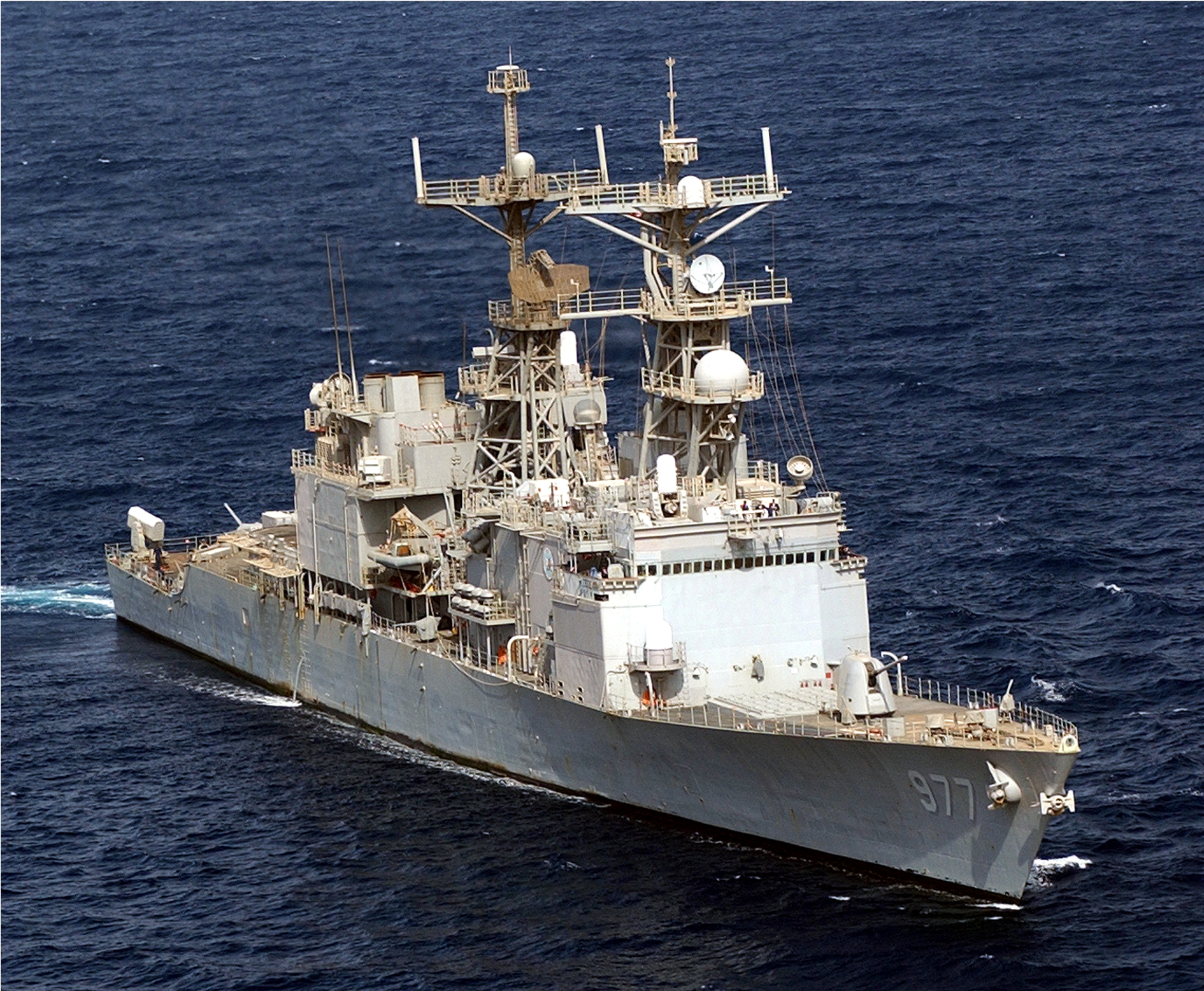 The U.S. Navy Spruance-class destroyer USS Briscoe (DD-977) underway on 21 March 2003. Briscoe was homeported in Norfolk, Virginia (USA), and was conducting combat missions in support of "Operation Iraqi Freedom".